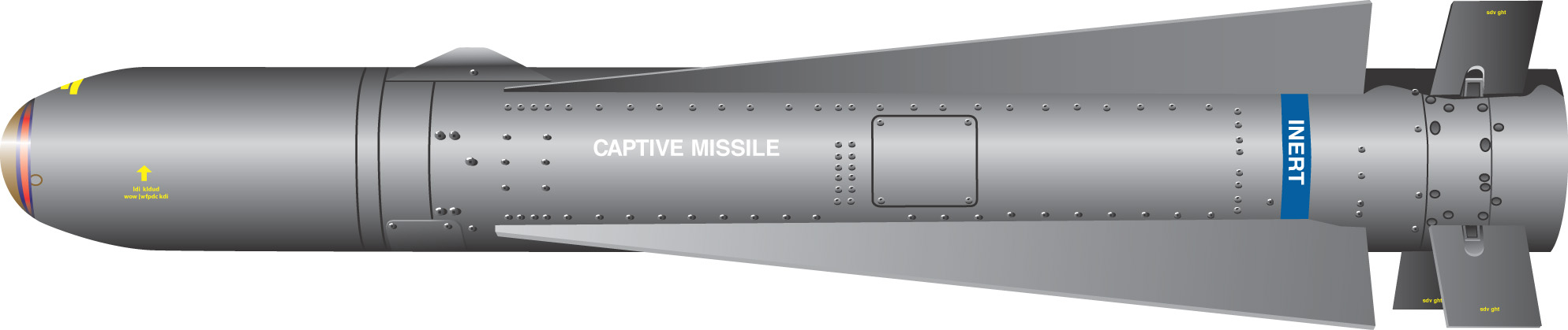 Graphic/painting of AGM-65 Maverick